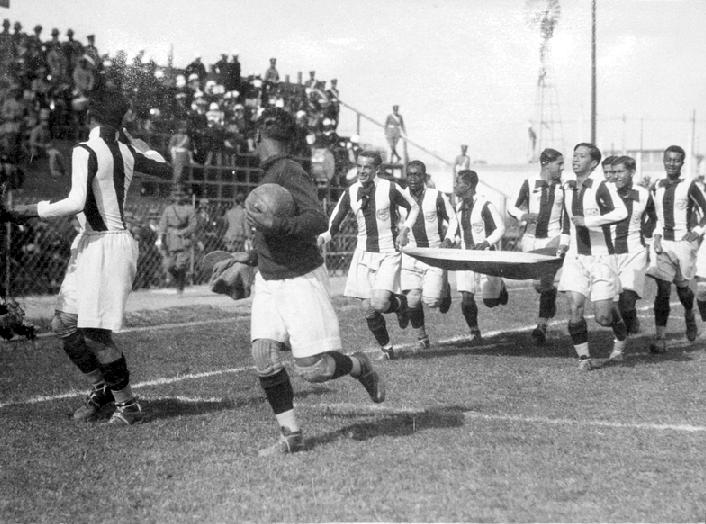 Peru national football team parading during the 1927 South American Championship (Copa America)